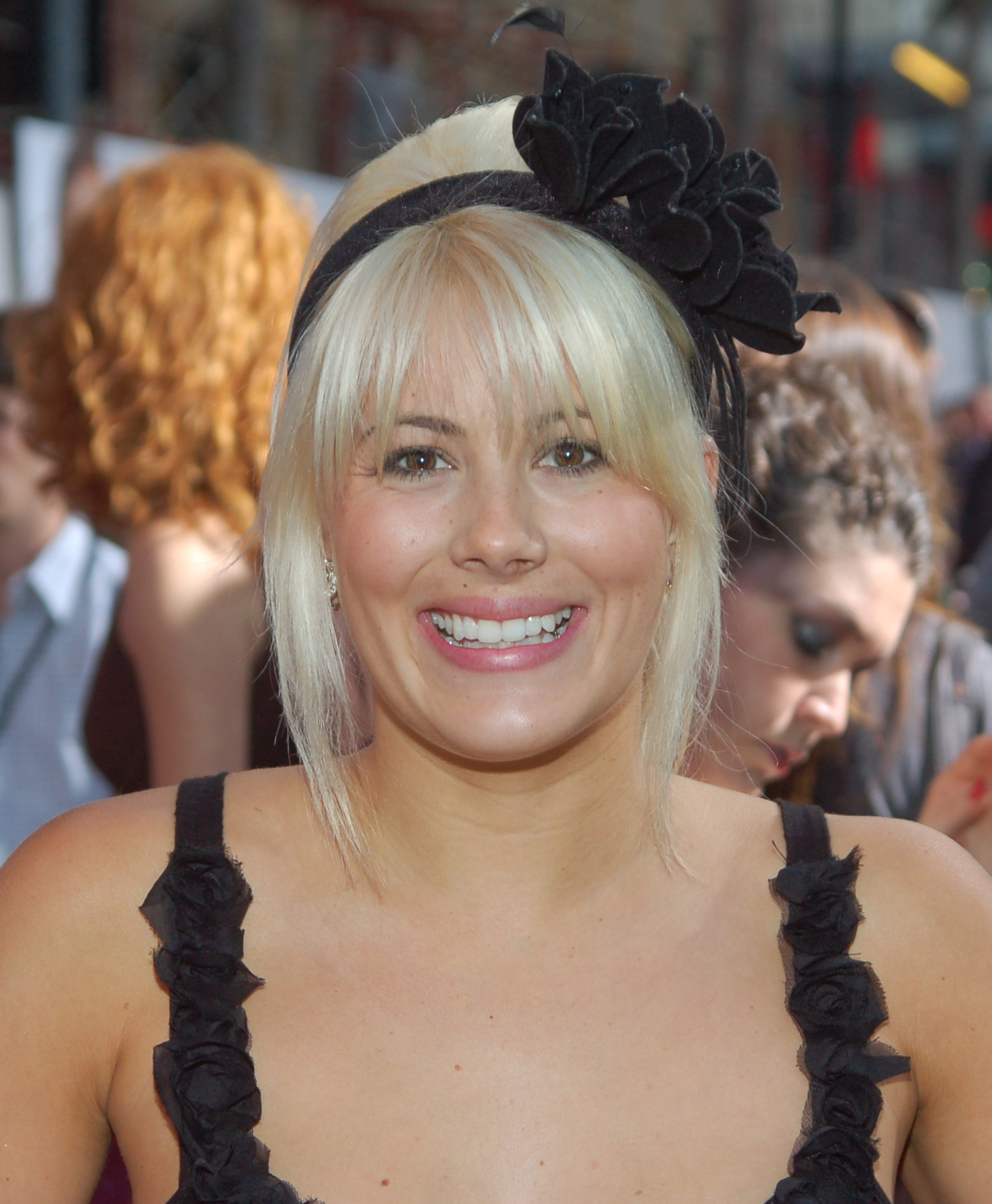 Shayne Lamas at the premiere for The Proposal